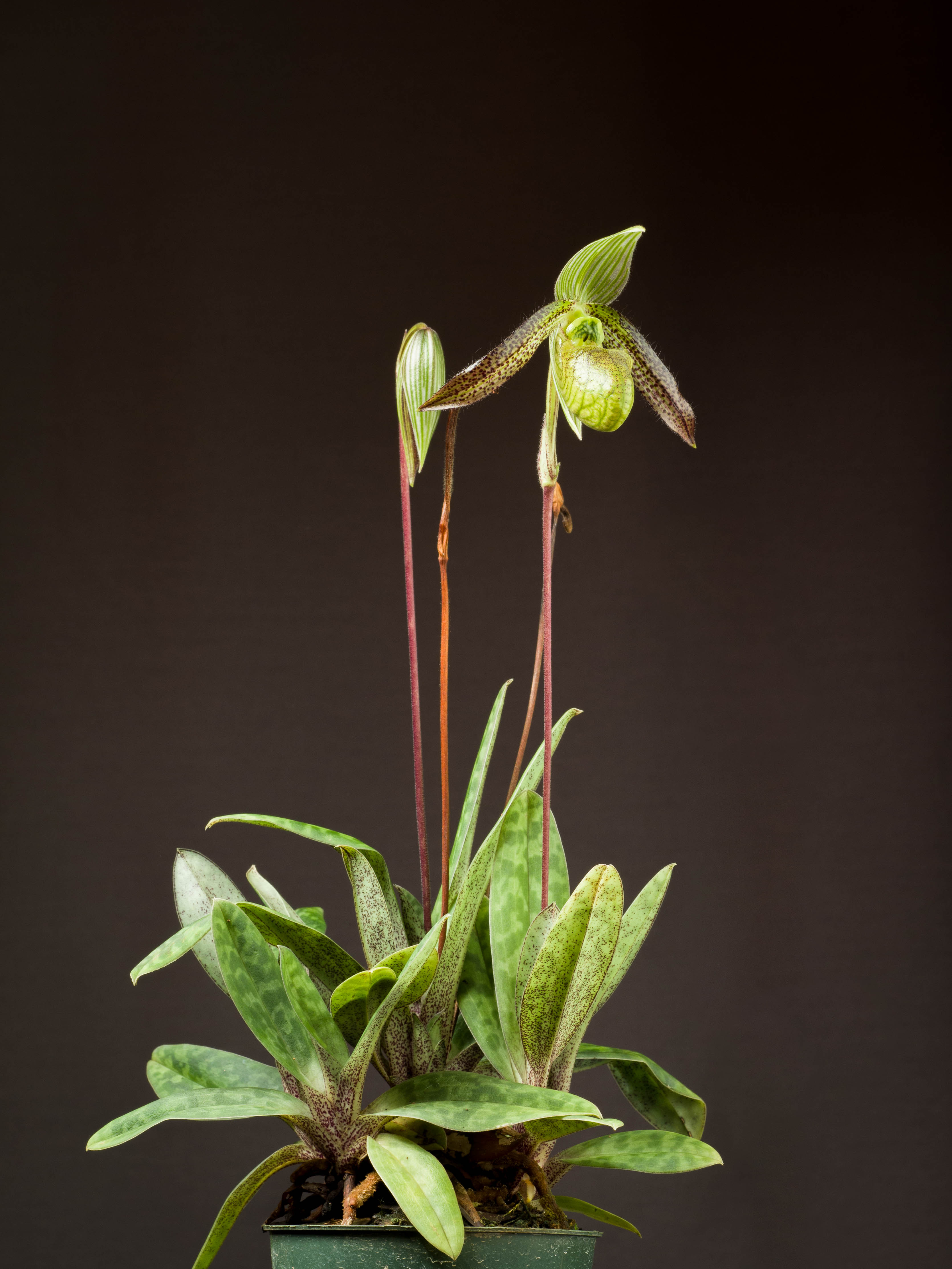 Paphiopedilum wardii 'Z4636' x '6615', item # 8932 from Carter & Holmes Orchids. Accroding to them, "this is our own superior version of this species with almost black markings. The parents of '6615' are 'Newport' x 'Bitter Chocolate' and 'Z4636' is from the Orchid Zone."